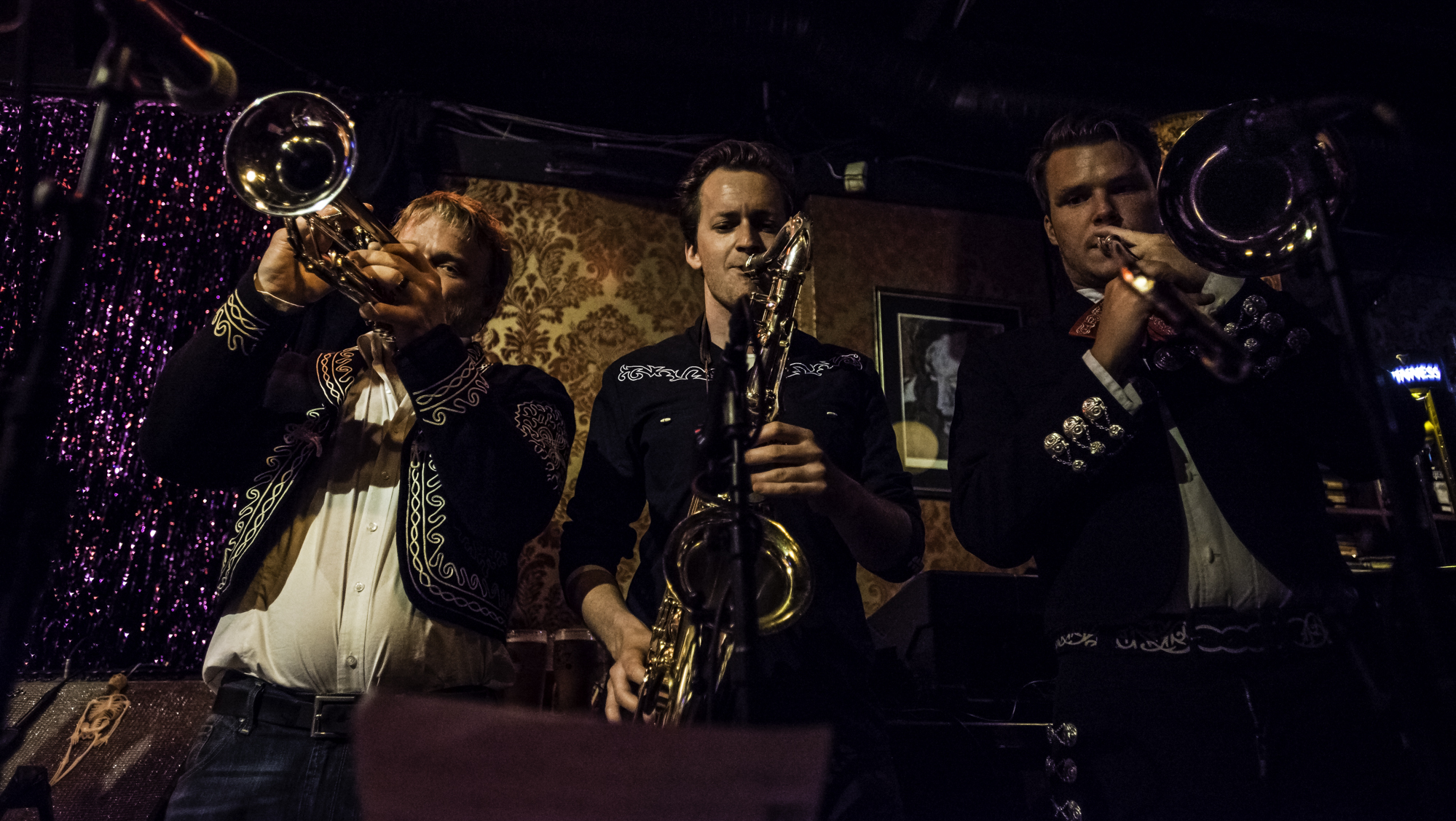 Playing at Mono, Oslo with Los Plantronics